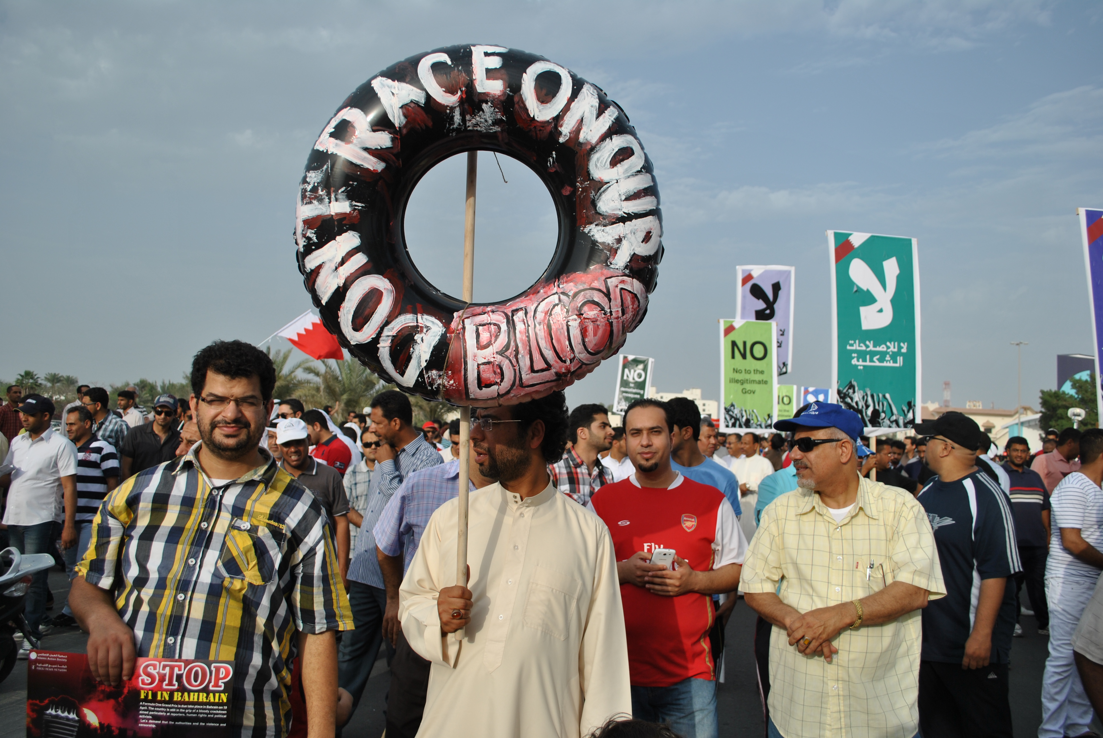 Two Bahraini protesters holding an anti-F1 signs